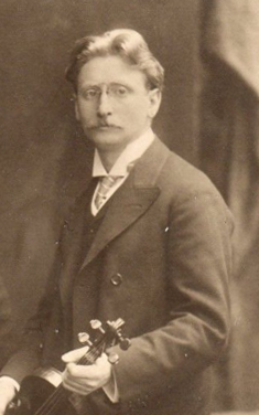 Adolf Rebner, a German violinist